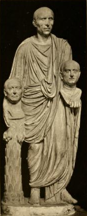 The so-called "Togatus Barberini": a Roman senator holding effigies of deceased ancestors; one is part-supported by a herm. Marble, late 1st century BC; head (not belonging): middle 1st century BC. Note: the busts are not proven "imagines": for an evaluation, see Flower, H. I., Ancestor Masks and Aristocratic Power in Roman Culture, Oxford University Press, 1999. ISBN 0-19-924024-8